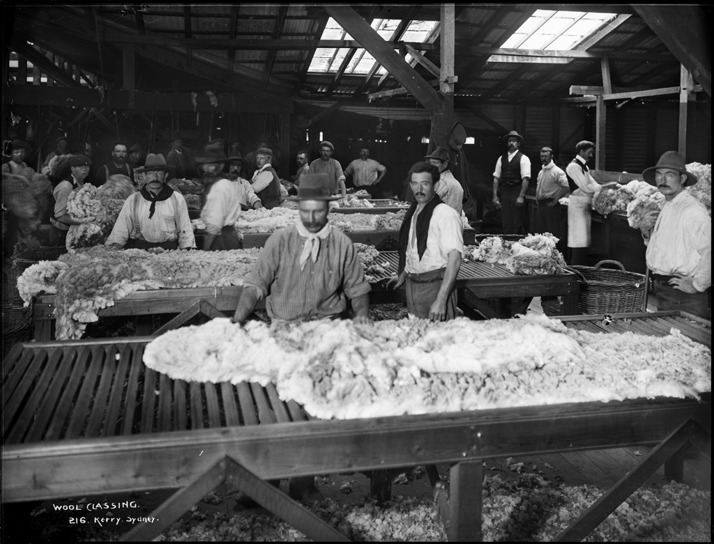 'Rural Life' Pictures from The Powerhouse Museum This file was posted to Flickr by The Powerhouse Museum (See the archive of their website for further information). Many thanks to the Powerhouse Museum for helping release this wonderful material. This tag does not indicate the copyright status of the attached work. A normal copyright tag is still required. See Commons:Licensing for more information.